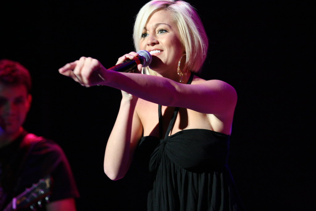 American Idol contestant Kellie Pickler performing live.